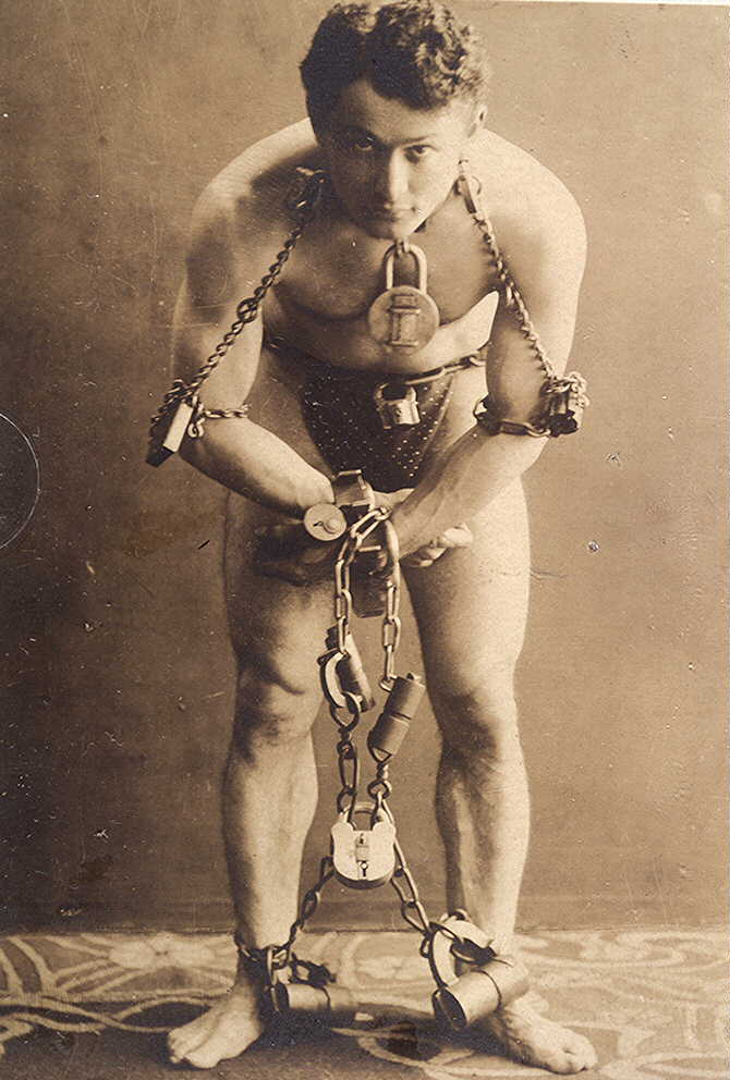 Harry Houdini (1874-1926) "full-length portrait, standing, facing front, in chains"; Promotional photo from ca. 1899. Sepia image